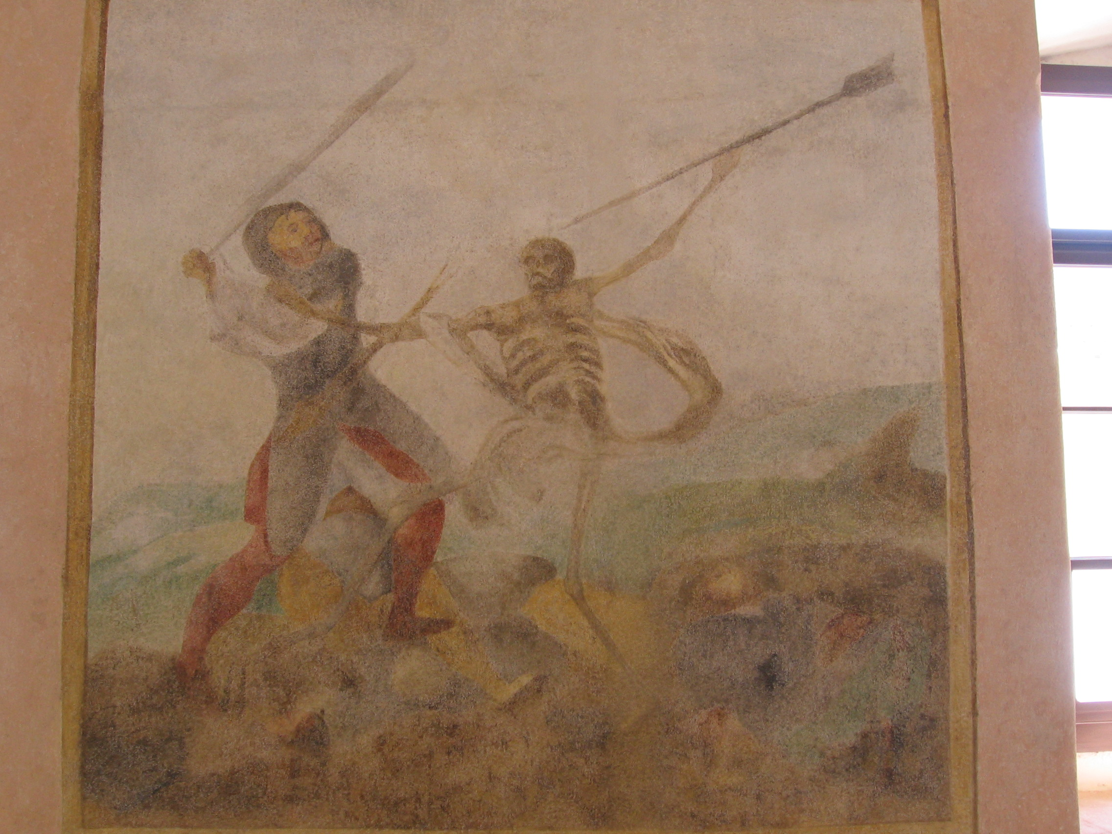 Dance of Death in the main corridor of the historical hospital in Kuks